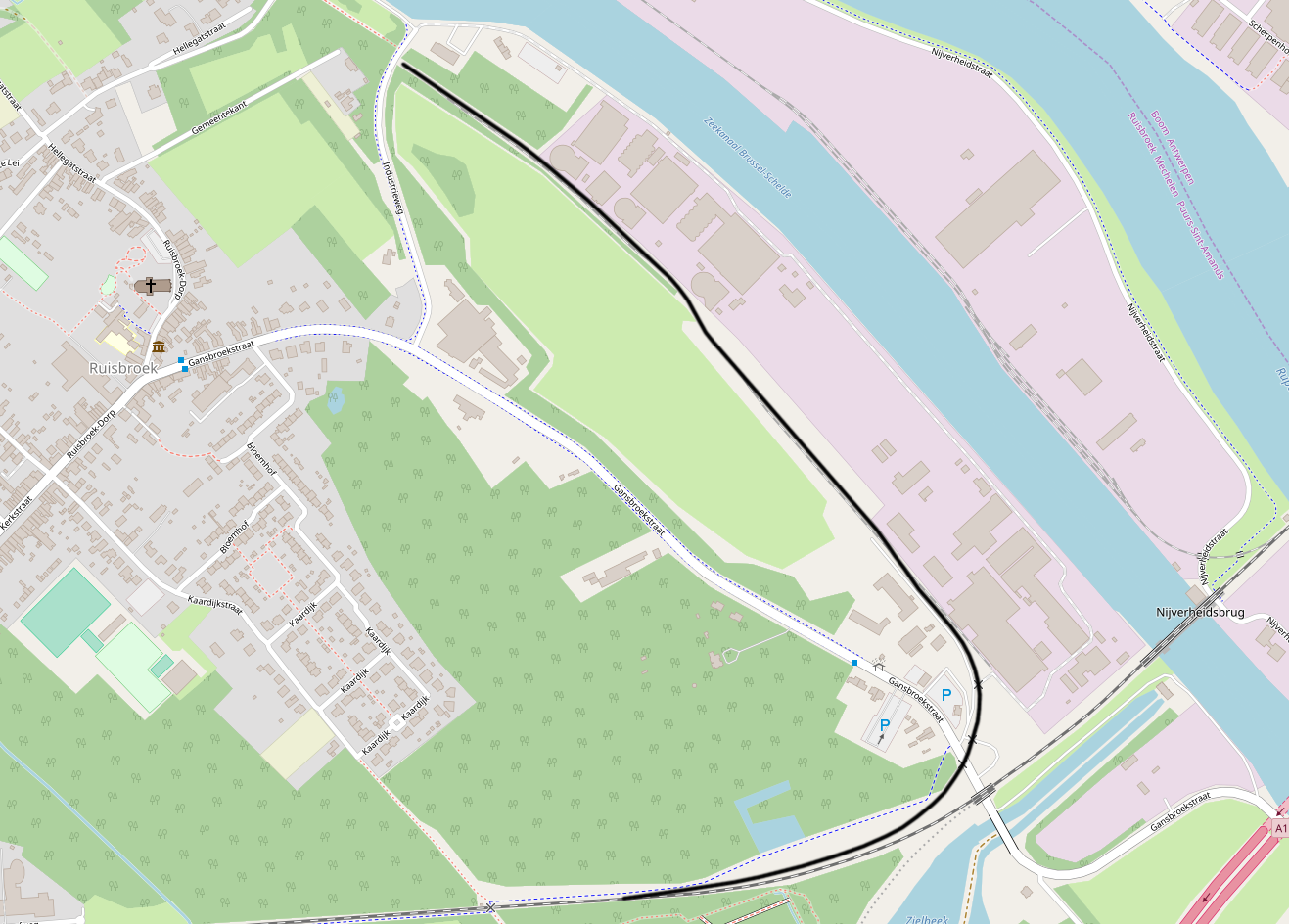 Belgian Railway Line 270, Y Sauvegarde - Prayon